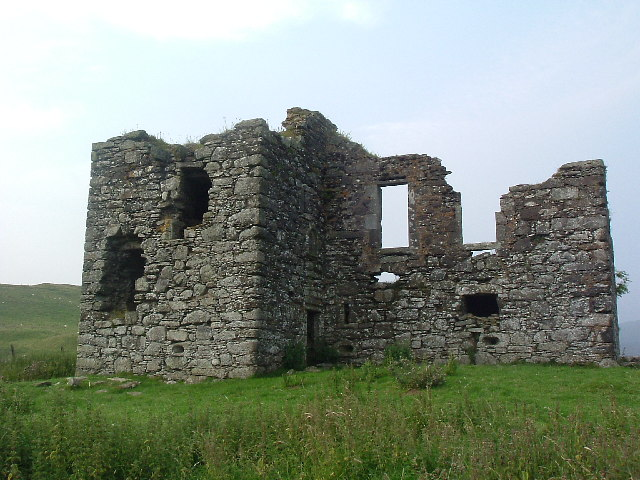 Whitefield Castle. A ruin built by Malcom Canmore